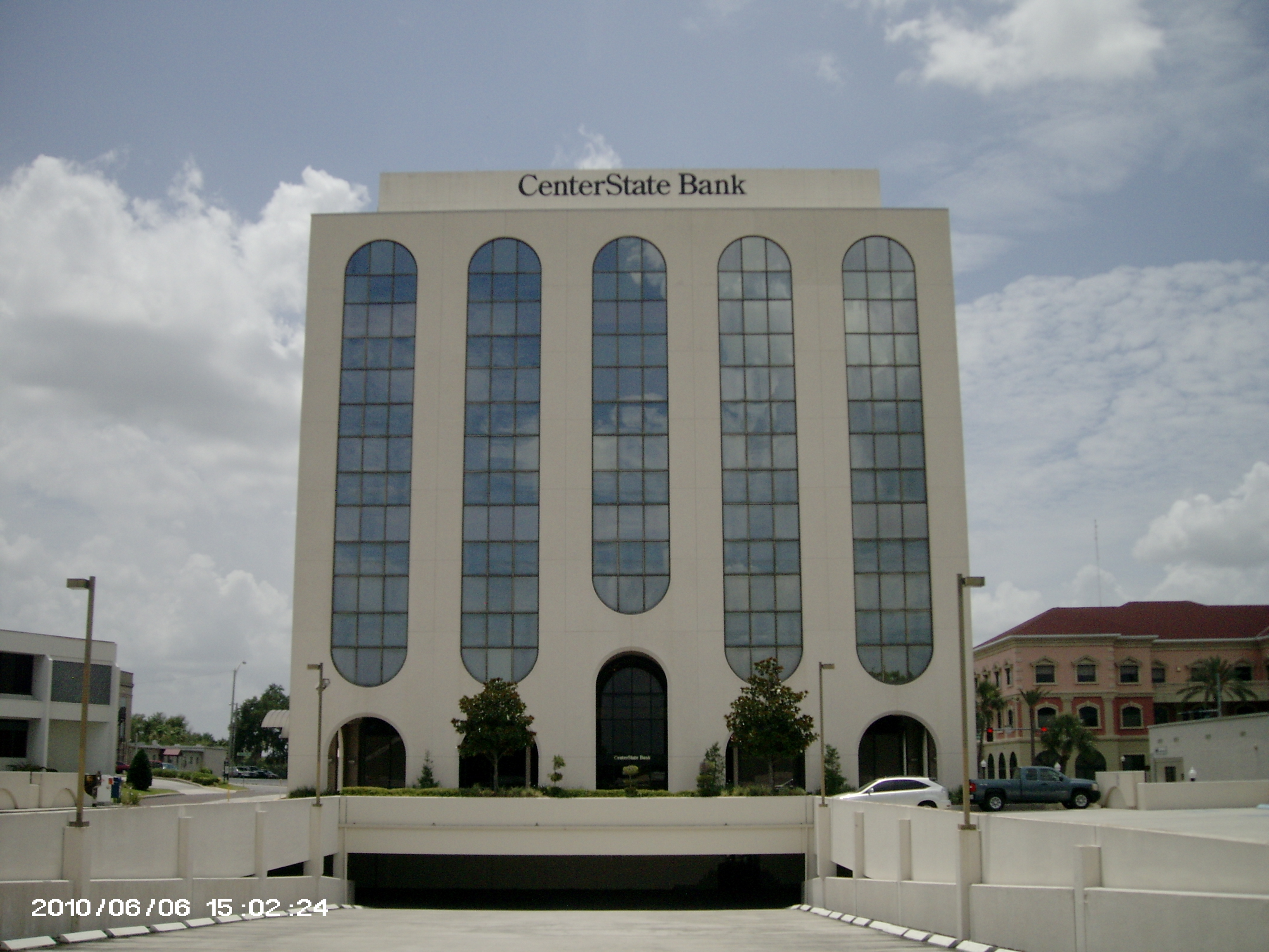 This is Century Plaza from its parking garage.